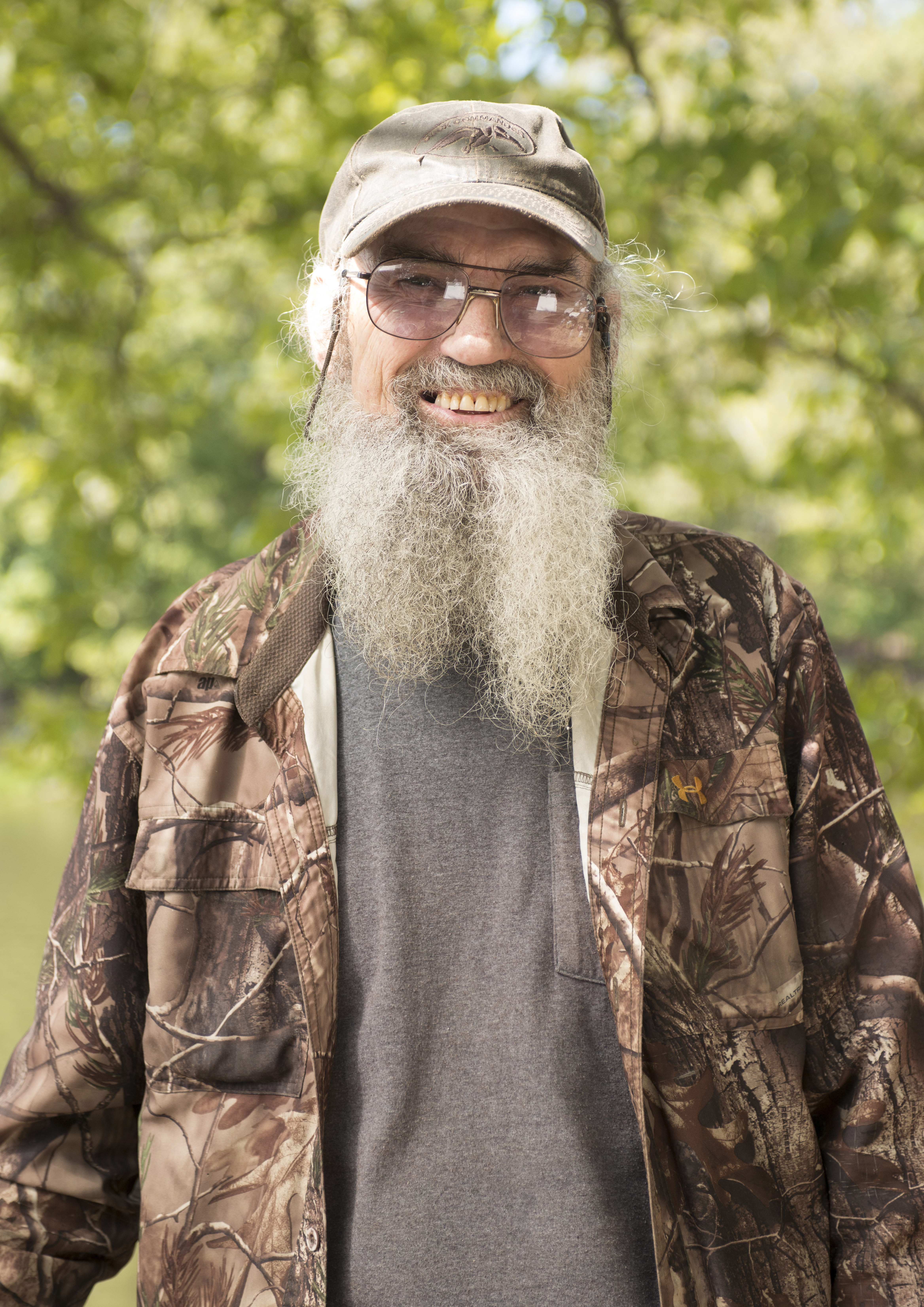 Si Robertson filming a State Farm turkey fryer safety video